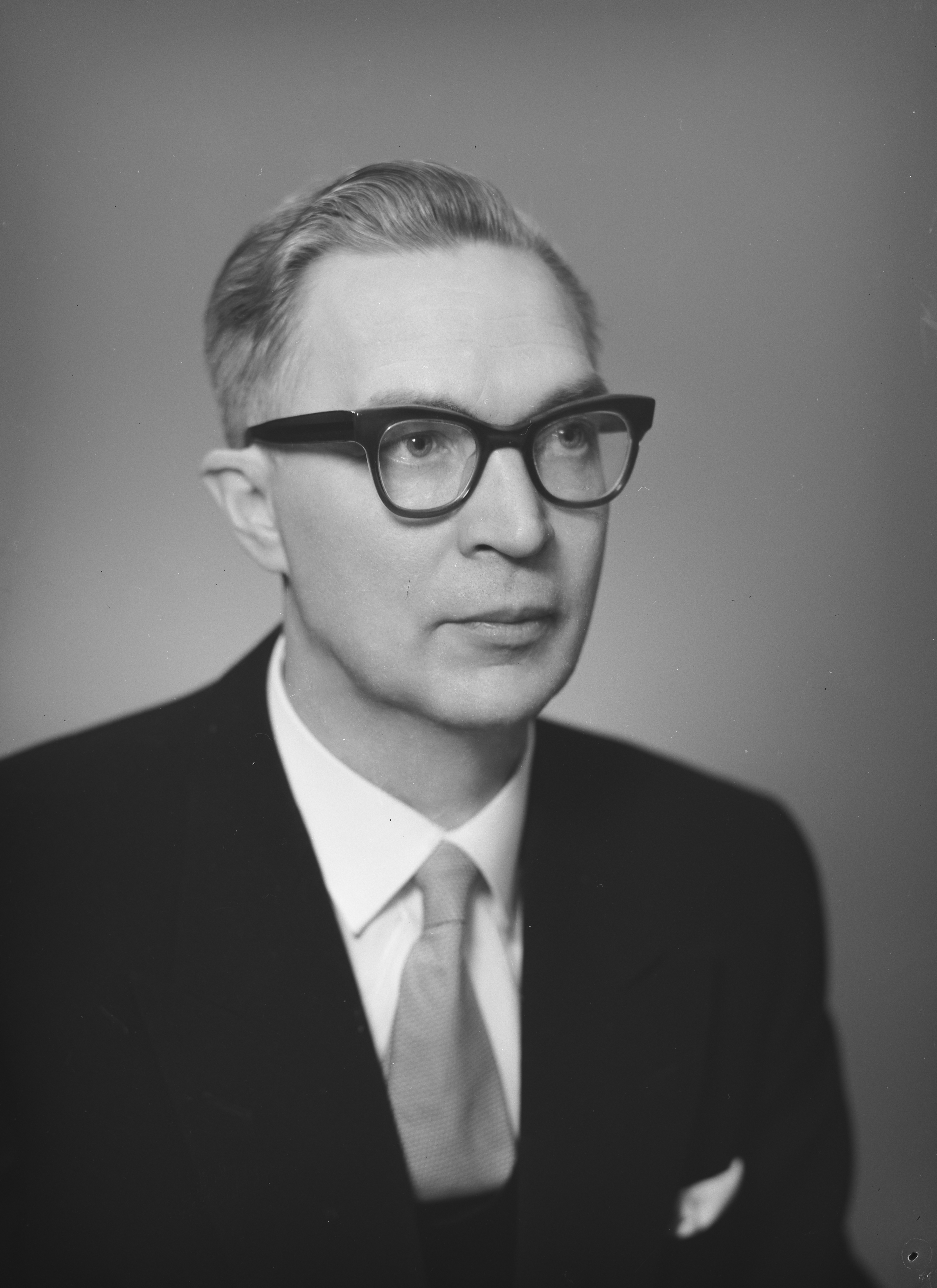 Photograph of the Finnish literature scholar Eino Kauppinen (1910–2001).